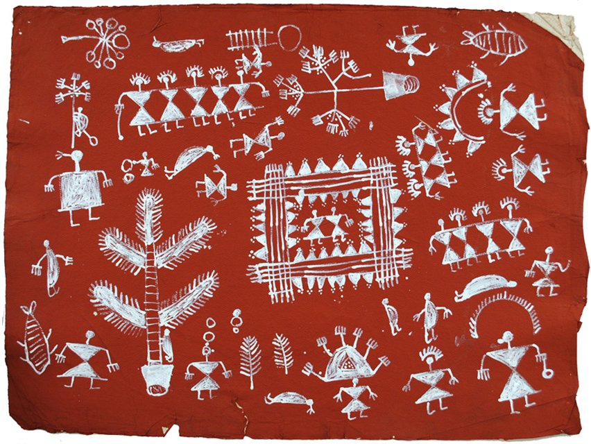 Anonymous Warli painting on paper, 64 x 86 cm